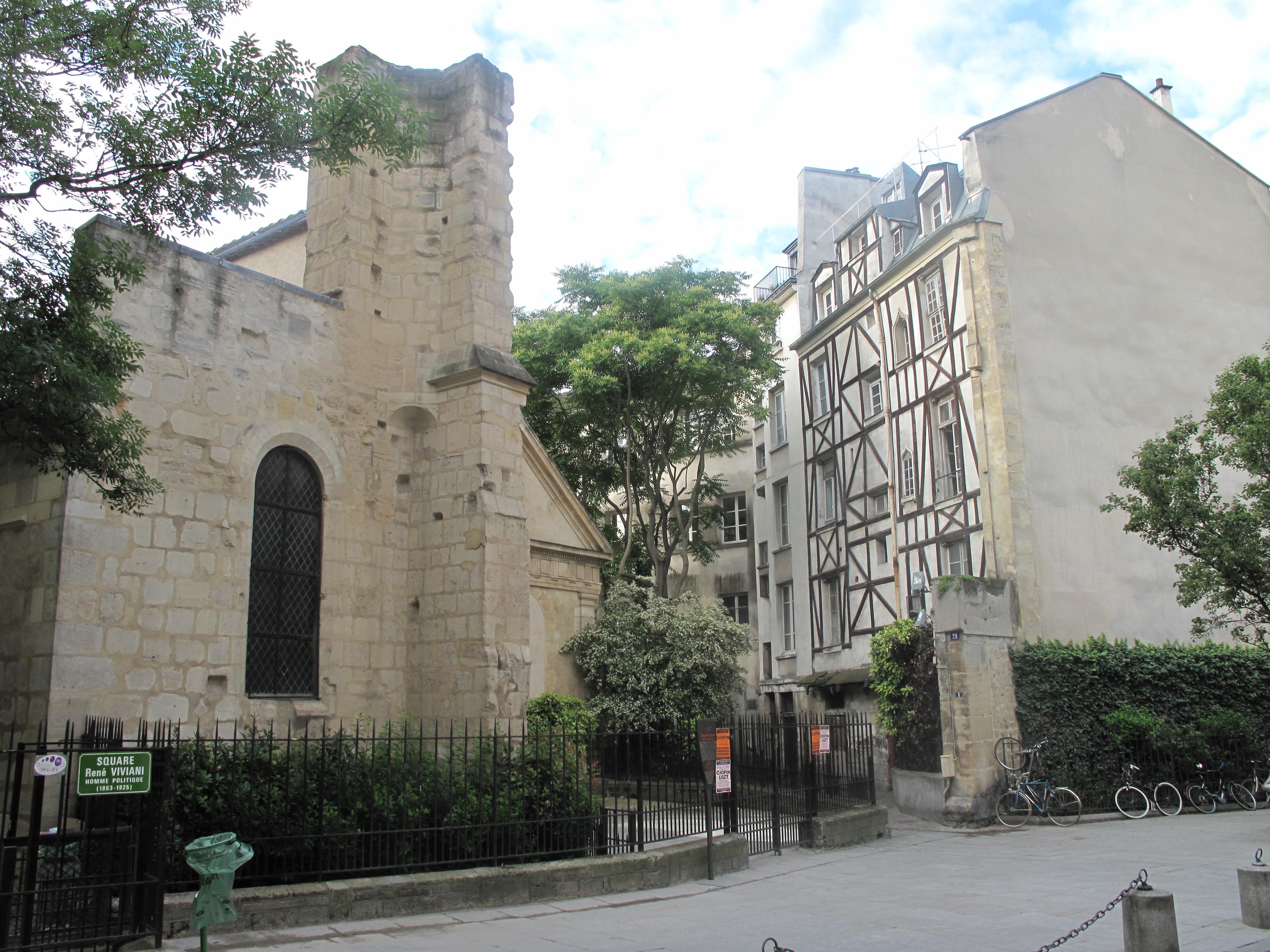 The church Saint-Julien-le-Pauvre and the timber framed houses on the right, Paris 5th arrond.